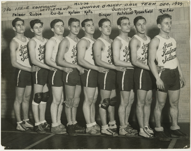 Description: Irene Kaufmann Settlement, junior basketball team, Dec. 1929 Creator/Photographer: Unknown Medium: black-and-white photographic print Date: December 1929 Persistent URL: Repository: American Jewish Historical Society Parent Collection: National Jewish Welfare Board, Records Call Number: I-337 Rights Information: No known copyright restrictions; may be subject to third party rights. For more copyright information, click here. See more information about this image and others at CJH Digital Collections. To inquire about rights and permissions, or if you have a question regarding the collection to which the image belongs, please contact the Reference Department of the American Jewish Historical Society by email. Digital images created by the Gruss Lipper Digital Laboratory at the Center for Jewish History.